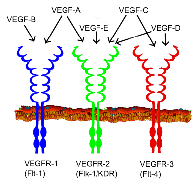 VEGFRs bind to each ligands.